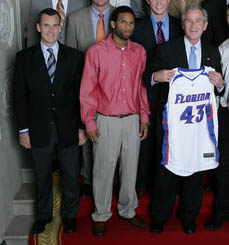 President George W. Bush stands with members of the University of Florida Men's Basketball 2007 Championship Team Monday, June 18, 2007 at the White House, during a photo opportunity with the 2006 and 2007 NCAA Sports Champions.